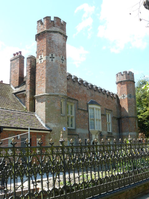 Abbey House, Winchester Abbey House stands on the site of St. Mary's Abbey. It was built about 1750 and originally faced the gardens to the rear. The present castellated front was added after the widening of the Broadway in 1771. Benedictine Nuns fleeing the disturbances of the French Revolution made their home here in the 1790's. Abbey House is now the official residence of the Mayor of Winchester.